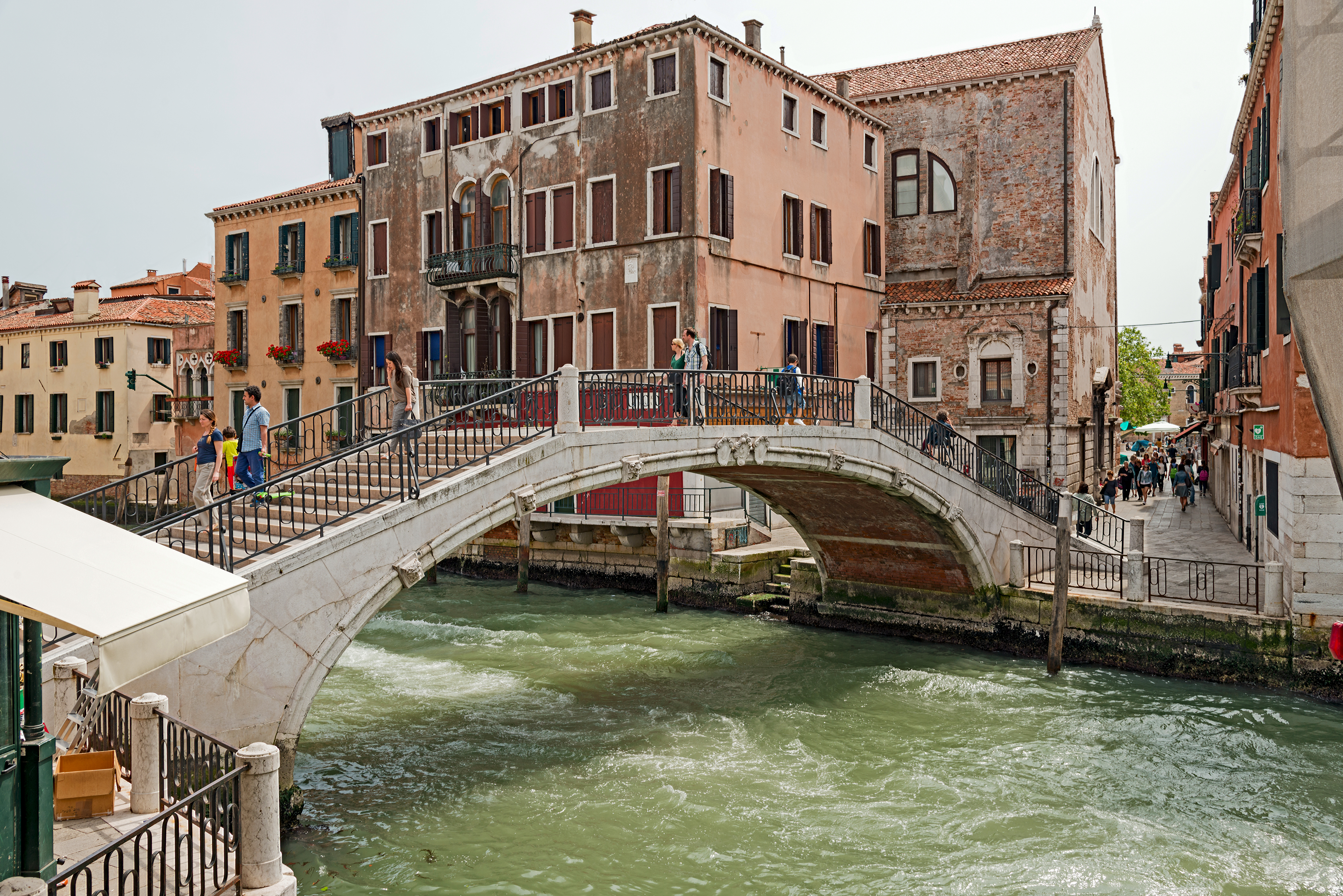 Ponte Santa Margarita on Rio de Ca' Foscari - Venice